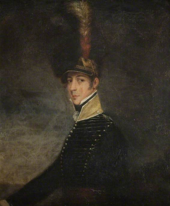 unknown artist; 24th Light Dragoons Officer; Somerset Museums Service